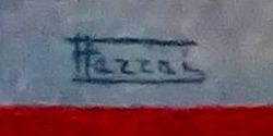 Signature of Italian painter Franco Ferrai.